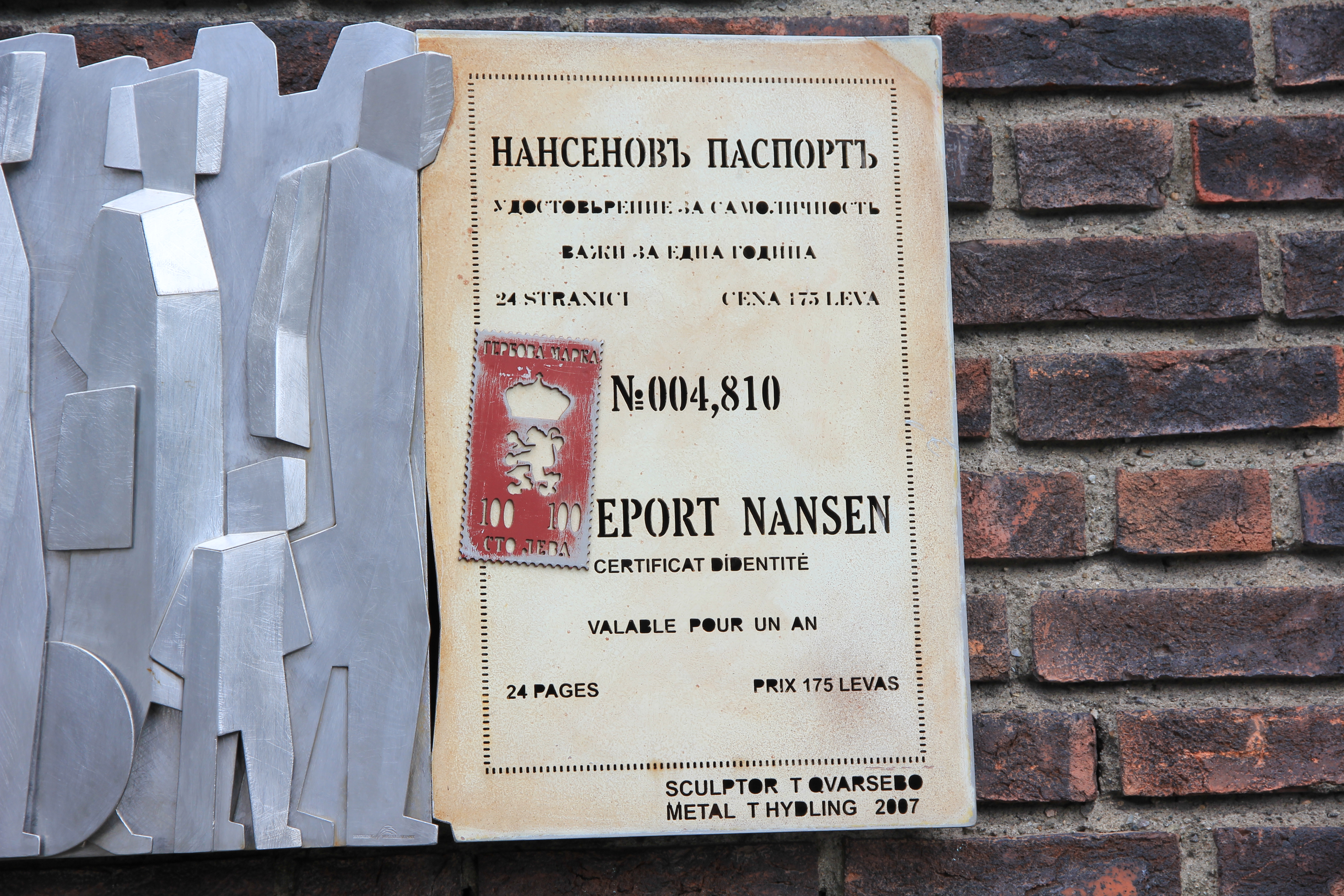 Photographed part of the external wall of the City Hall in Oslo, Norway